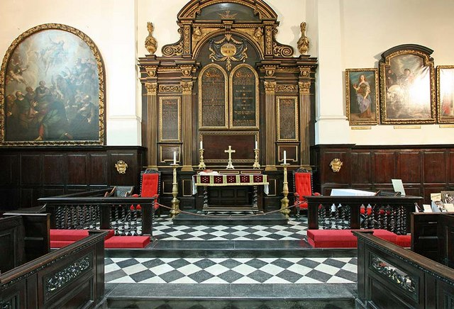 St Martin, Ludgate Hill, London EC4 - Sanctuary